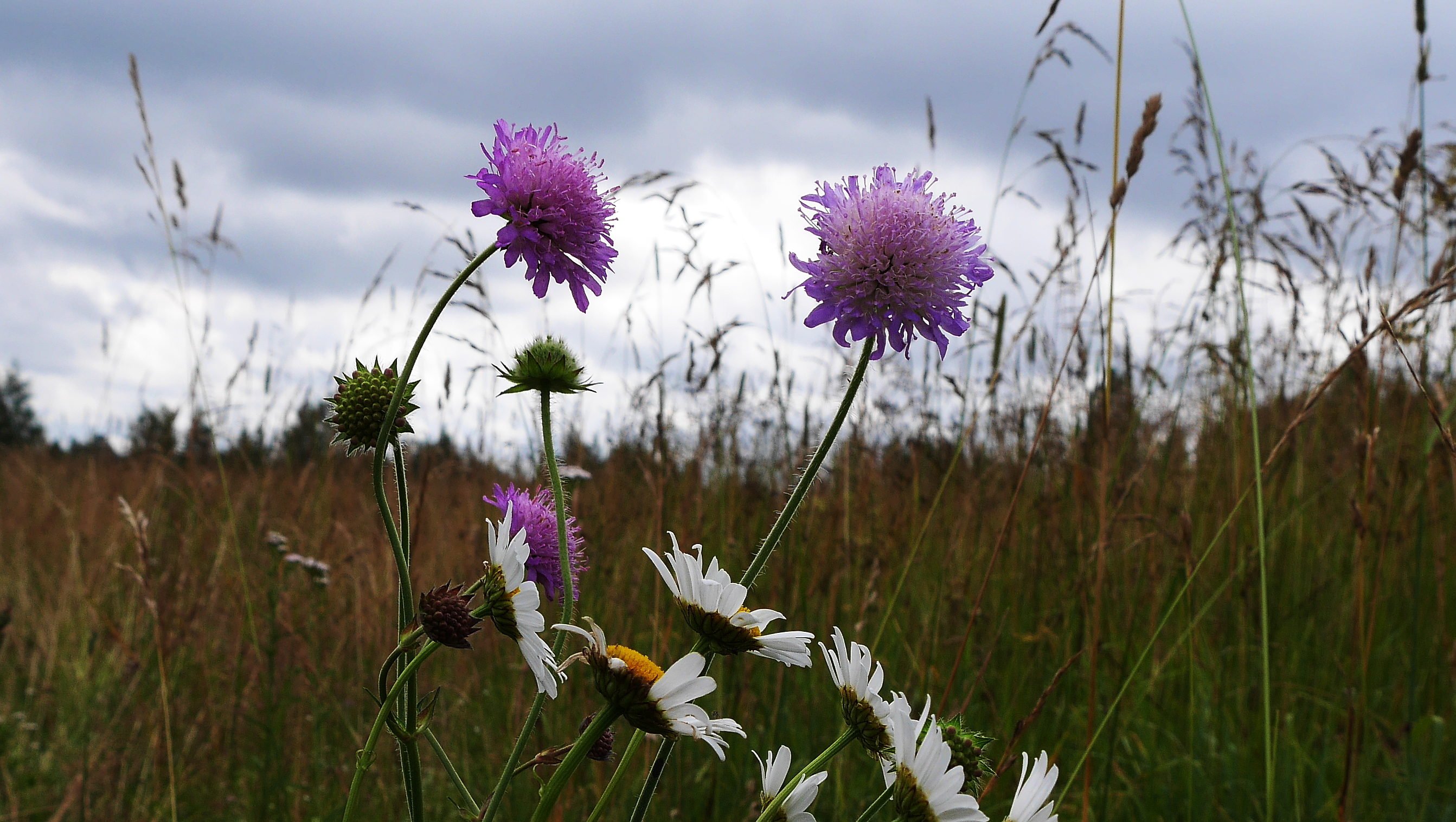 Knautia arvensis (Belarus)